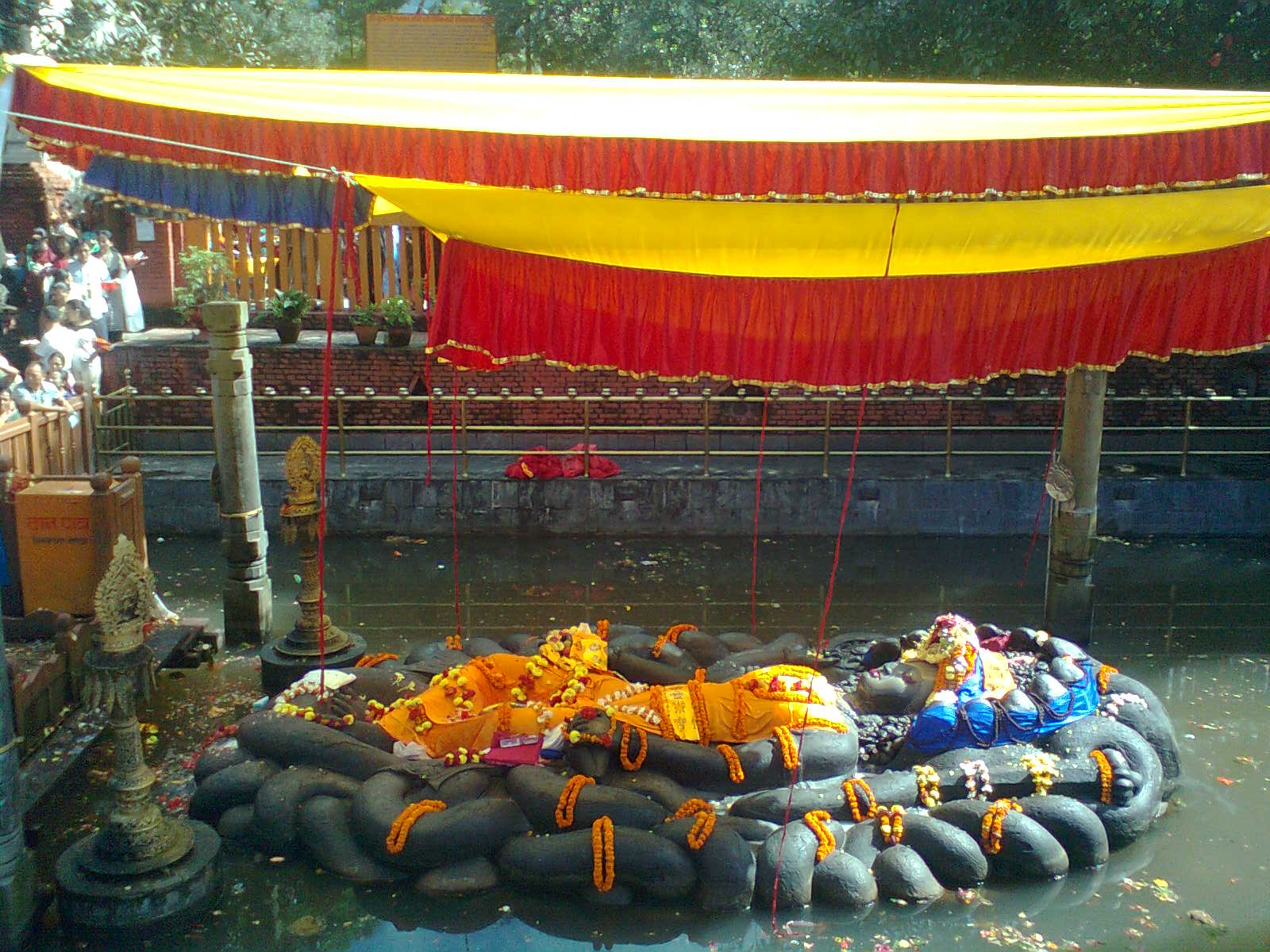 God Budhanilkantha at Kathmandu.